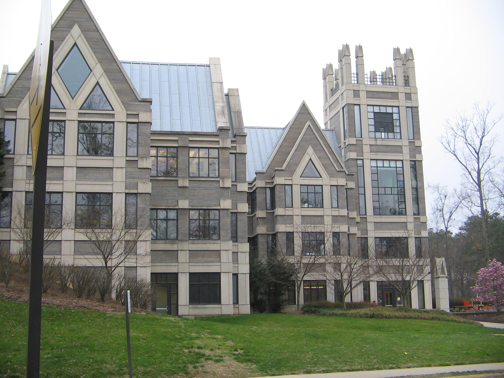 Terry Sanford School of Public Policy at Duke University